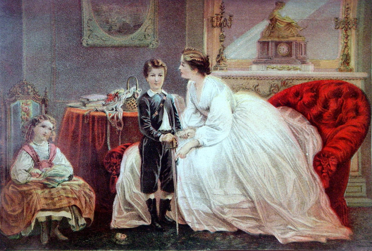 Victorian picture depicting a mother rebuking her son for beheading his sister's doll.